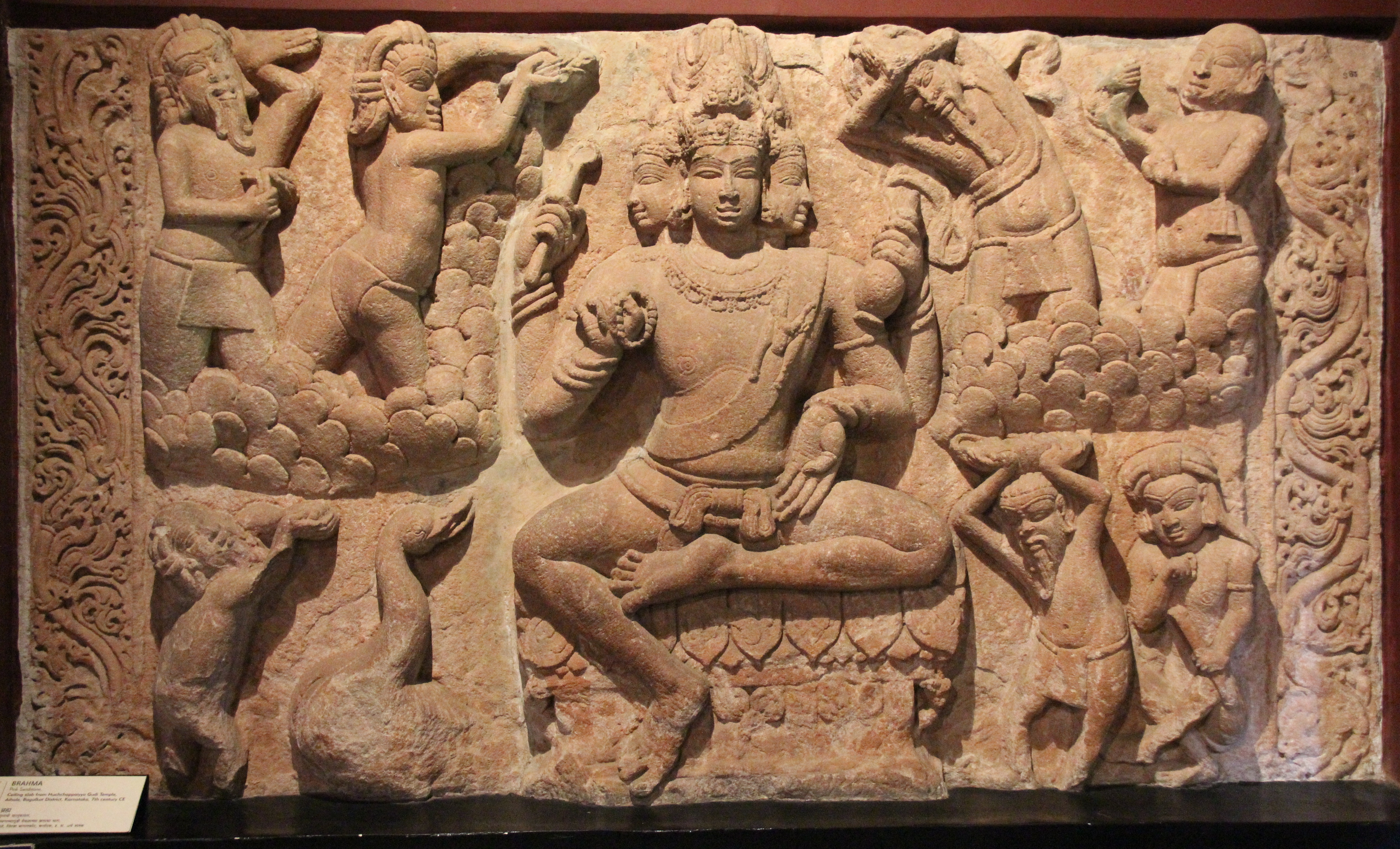 Brahma idol carved out of pink sandstone. Idol was part of ceiling slab from Huchchappaiyya Gudi Temple, Ahiole in Karnataka and dates back to 7th century CE. Idol on display at Prince of Wales Museum, Mumbai